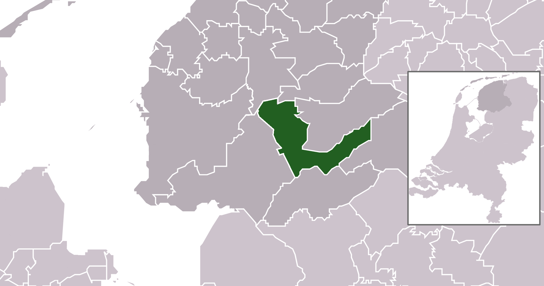 Location maps for the 441 municipalities in the Netherlands. Boundaries 1/1/2009 Automatically generated with script File name contains "Municipality code" (CBS-code) as specified in: [1] Created in svg using coordinate data derived from ESRI data published by Centraal Bureau voor de Statistiek, Voorburg/Heerlen. ([2]) Color coding and original design (slightly adpated by me) by user Mtcv (2006/2007) ([3]) Changed version with the new muncipalities Súdwest Fryslân, De Friese Meren, Hollandse Kroon and the muncipalities which area has increased: Heerenveen, Medemblik and Leeuwarden. 2014 The copyright holder of this file, Centraal Bureau voor de Statistiek, allows anyone to use it for any purpose, provided that the copyright holder is properly attributed. Redistribution, derivative work, commercial use, and all other use is permitted. Attribution: Centraal Bureau voor de Statistiek This work is free and may be used by anyone for any purpose. If you wish to use this content, you do not need to request permission as long as you follow any licensing requirements mentioned on this page.